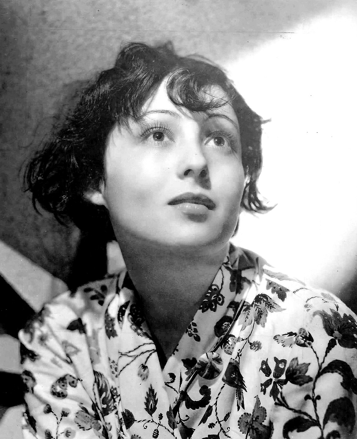 Photo of actress Luise Rainer.